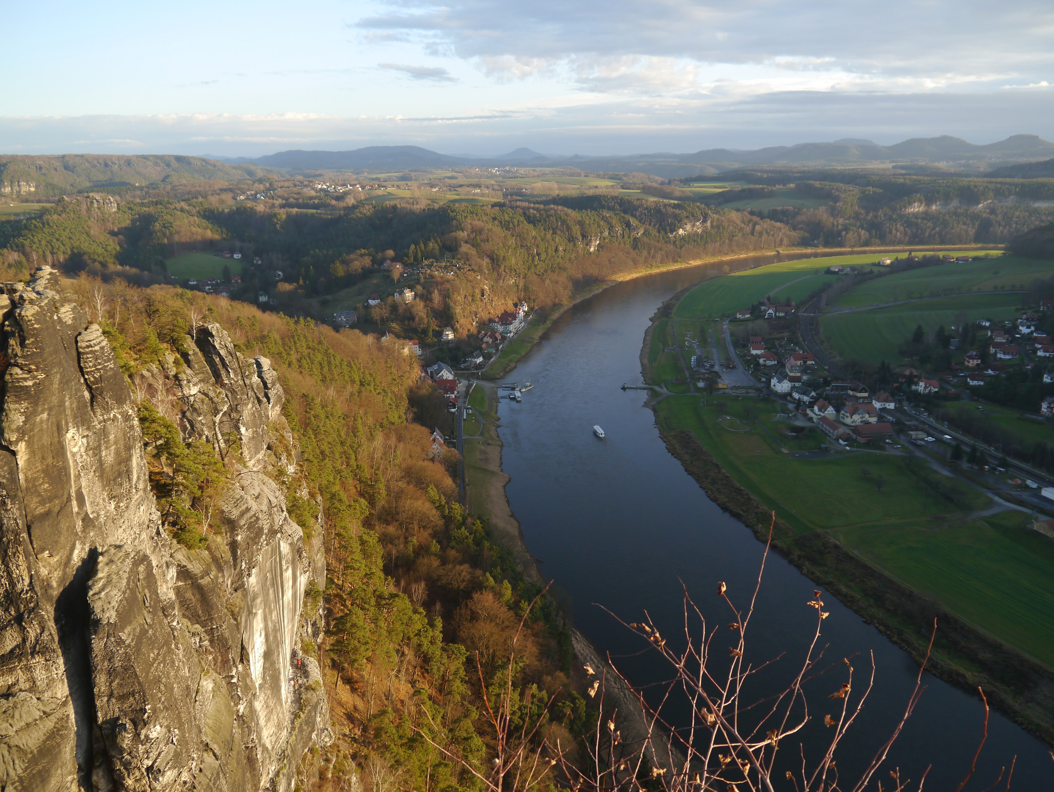 View from Bastei Rocks to the surroundings, Rathen